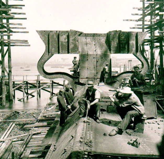 Dock Hamburg; Hapag Schnelldampfer "Imperator"